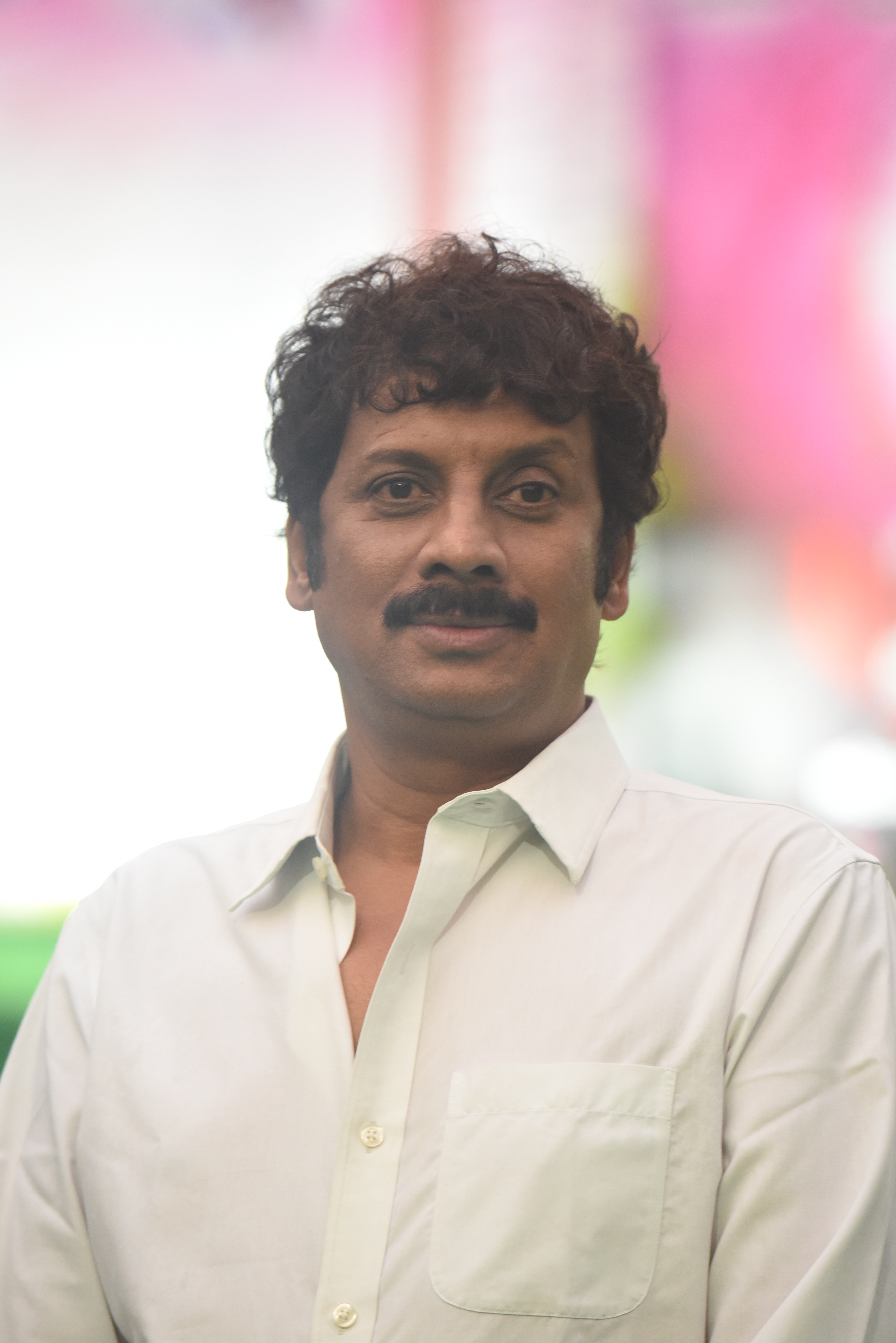 Uttej Cini Actor